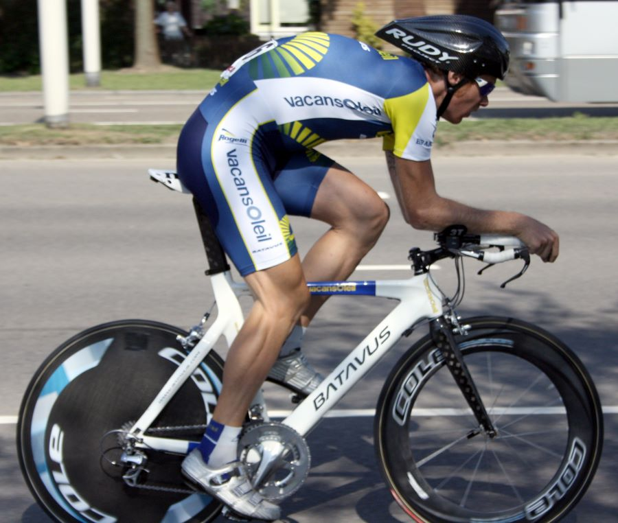 Jens Mouris at the 2009 Eneco Tour prologue